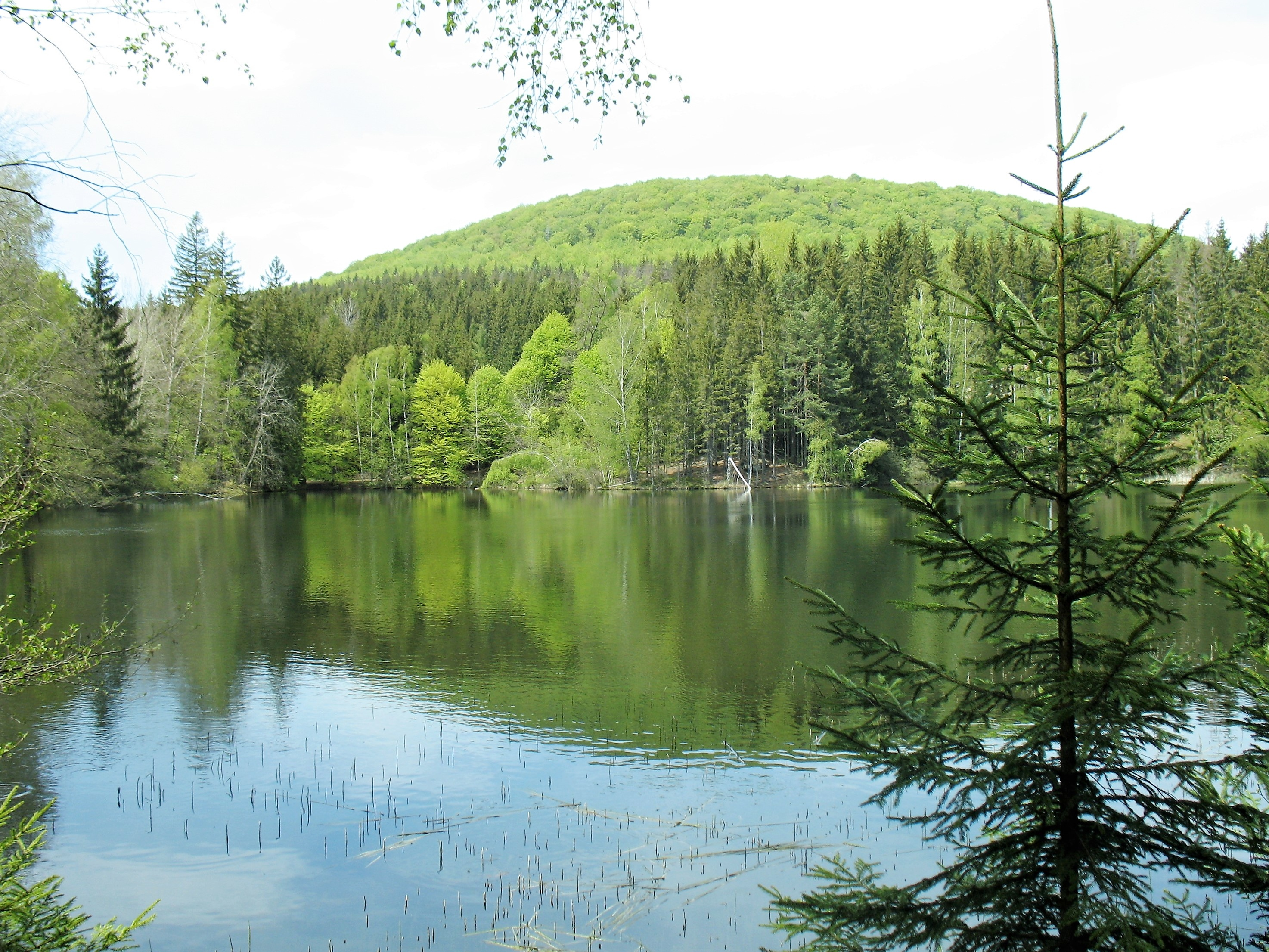 Hraniční rybník, pond in Lusatian Mountains